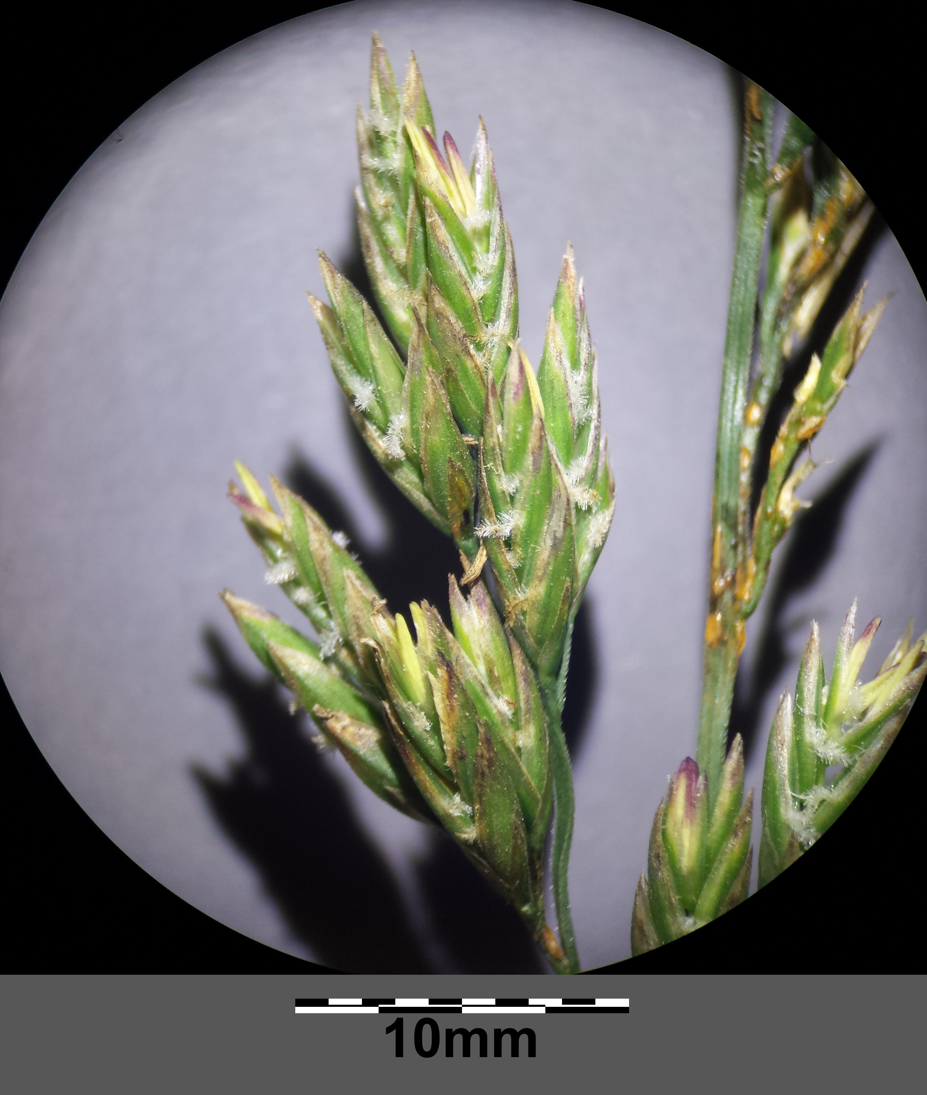 Branch of panicle Taxonym: Festuca arundinacea subsp. arundinacea ss Fischer et al. EfÖLS 2008 ISBN 978-3-85474-187-9 Location: Unterrohrbach/In den Teichteln, district Korneuburg, Lower Austria - ca. 200 m a.s.l. Habitat: wet meadows